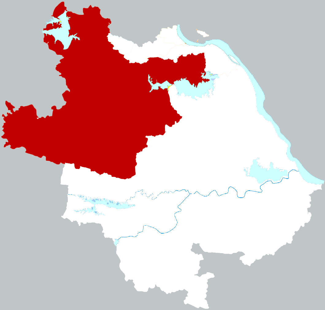 Location of Daye county-level city in Huangshi city, China